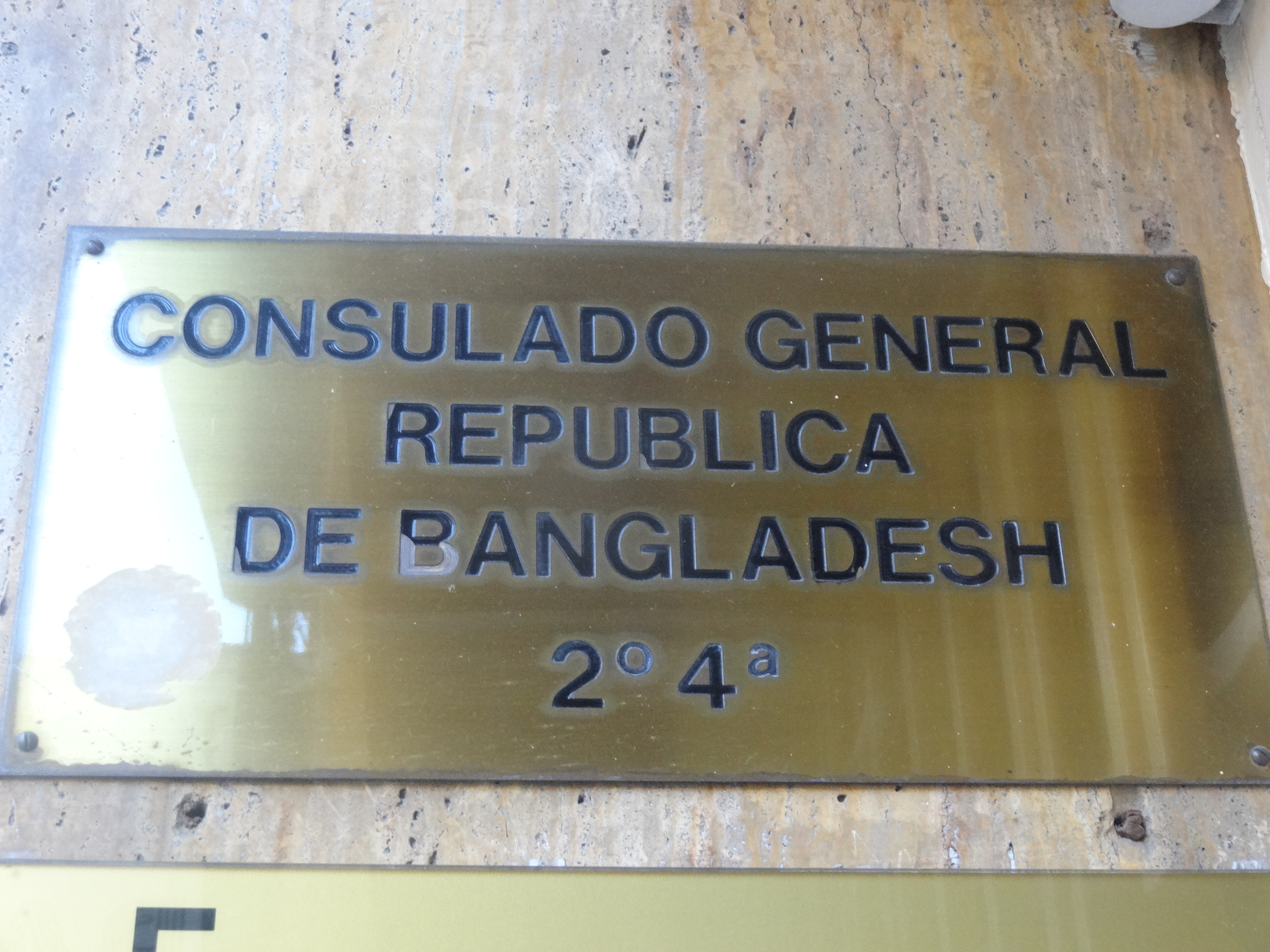 2017. Consulate of Bangladesh, Barcelona